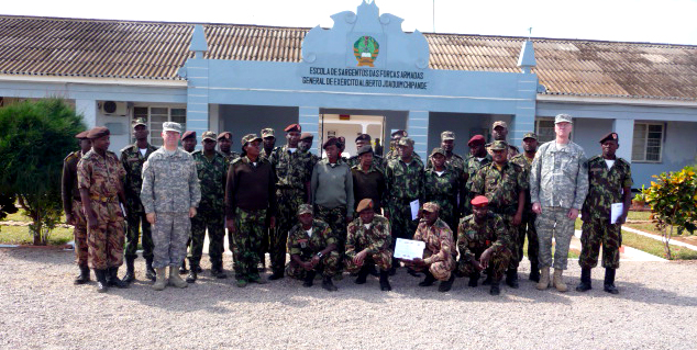 More than 20 students from the Armed Forces for the Defense of Mozambique’s or FADM, took part in Psychology/Behavioral Health in relation to Disaster Relief and Humanitarian Aid training. This military-to-military event took place in Boane, Mozambique August 6-10. (U.S. Army Africa photo) To learn more about U.S. Army Africa visit our official website at Official Twitter Feed: Official Vimeo video channel: Join the U.S. Army Africa conversation on Facebook